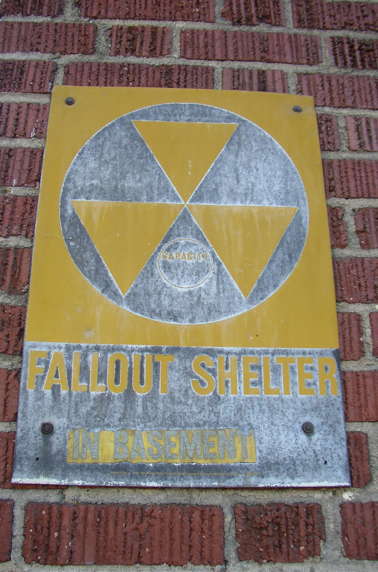 A sign pointing to an old fallout shelter in New York City.